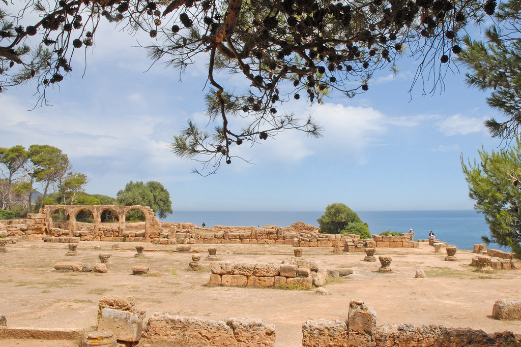 Ruins of the Byzantine era Basilica of St. Crispinus — in Tipaza, northern Algeria. Archaeological site of Tipasa (Caesaria), Algeria: vestiges of the christian church.